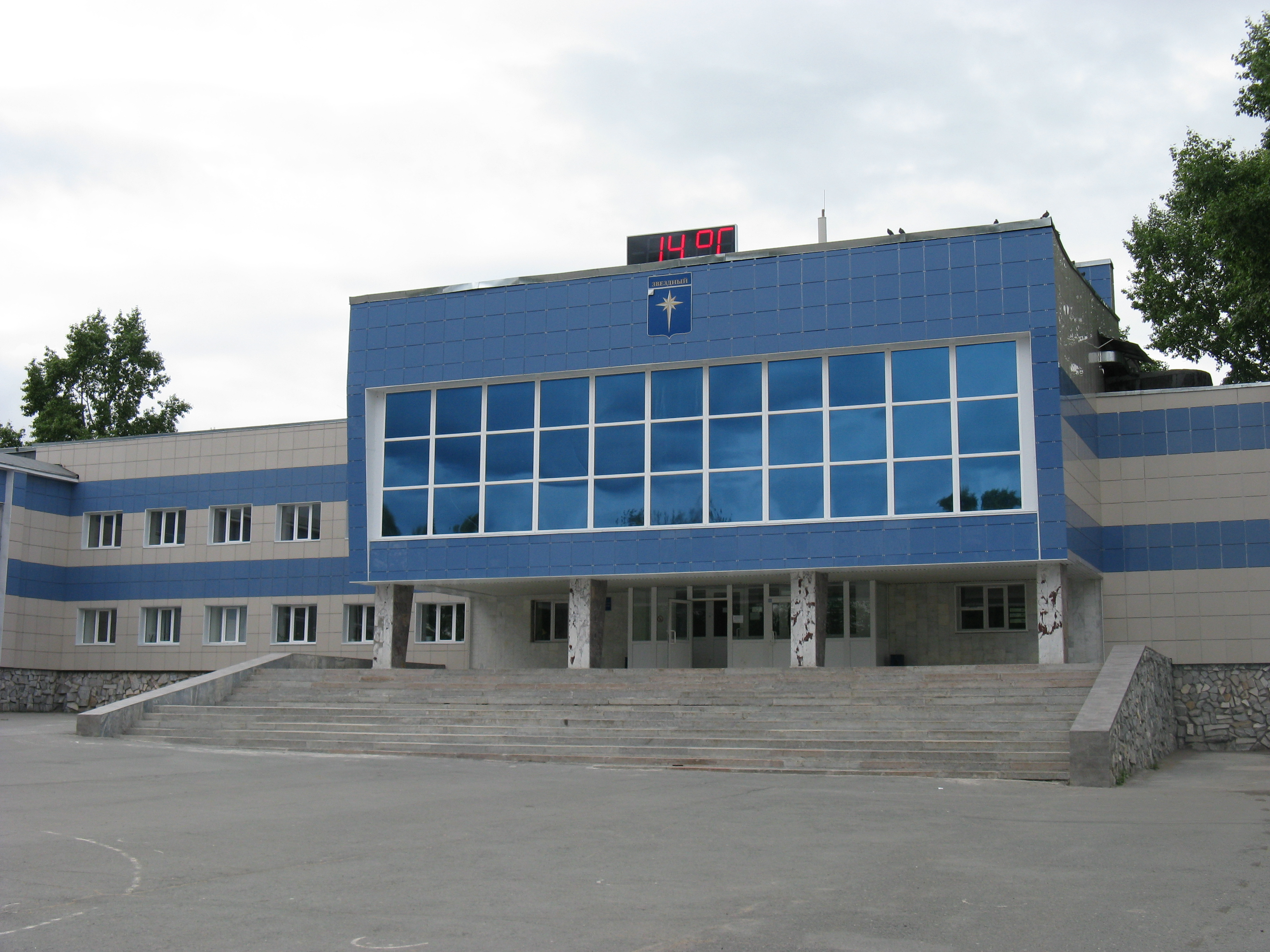 Cultural center in closed town Zvezdniy in Perm Krai